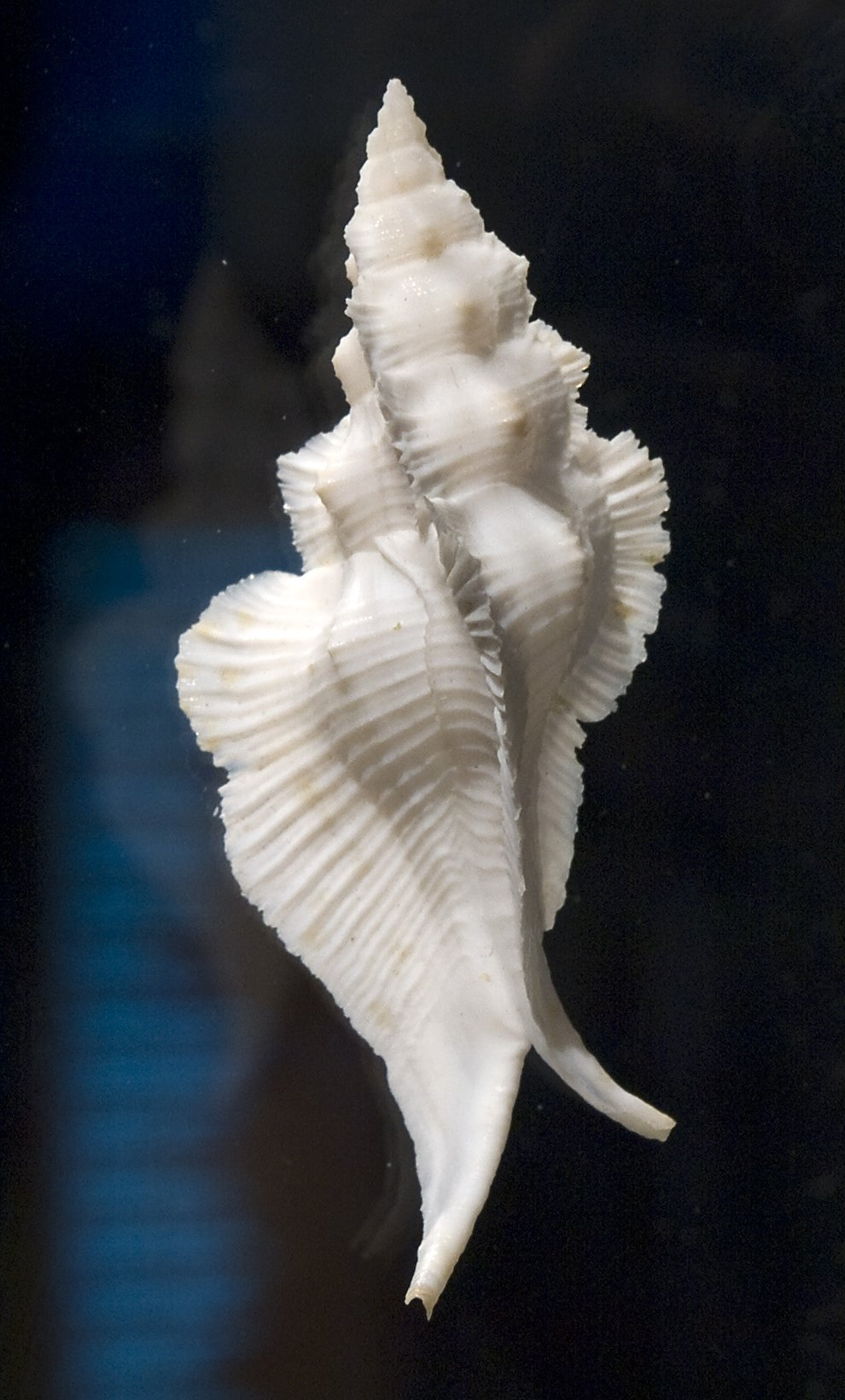 Crop of file in filename